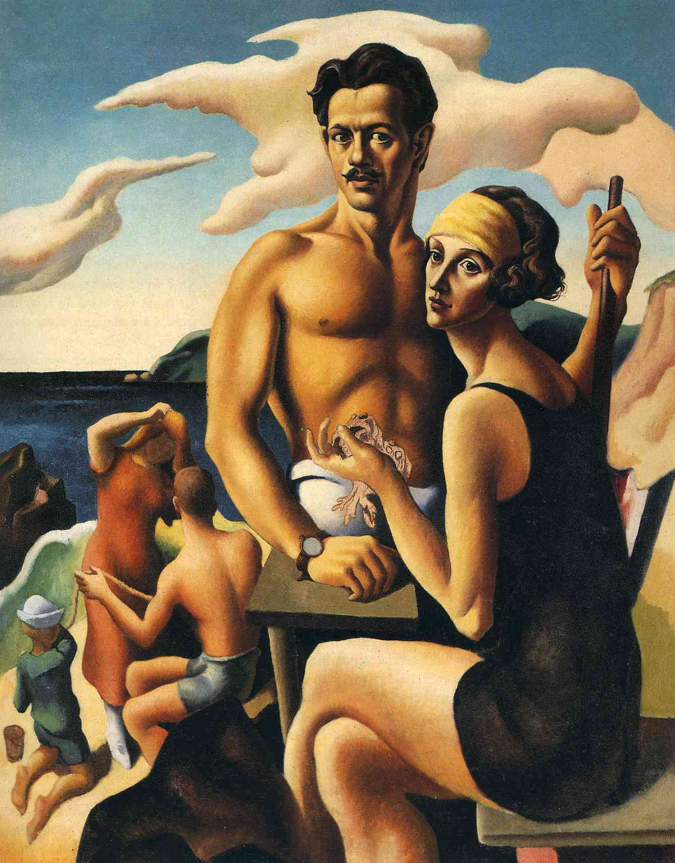 A double portrait of Thomas Hart Benton and his wife, Rita Piacenza Benton, at Martha's Vinyard, Mass.